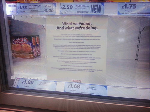 Sign in a Tesco supermarket in the aftermath of the 2013 horse meat contamination scandal.